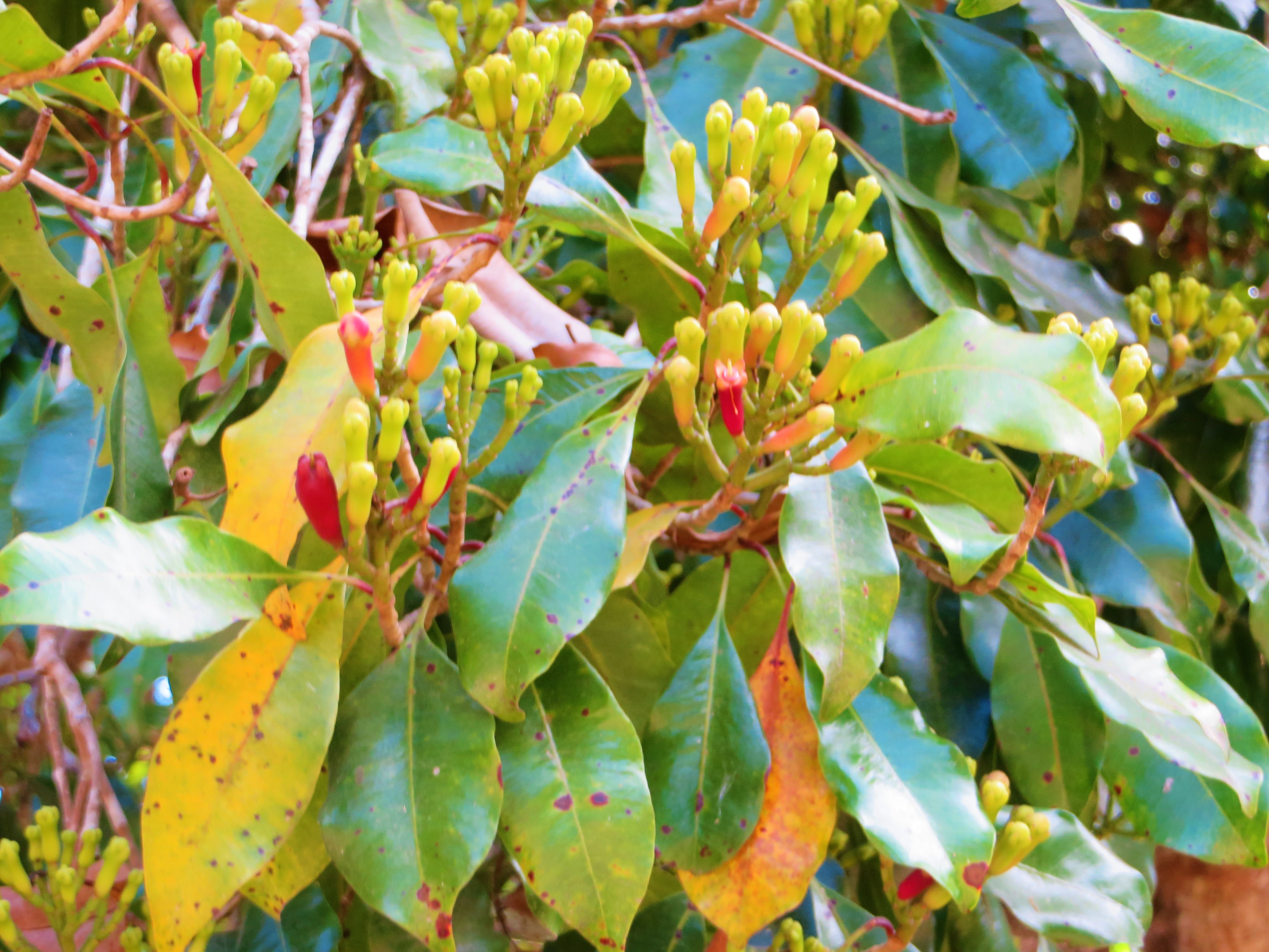 The flowers of clove tree in Pemba island.